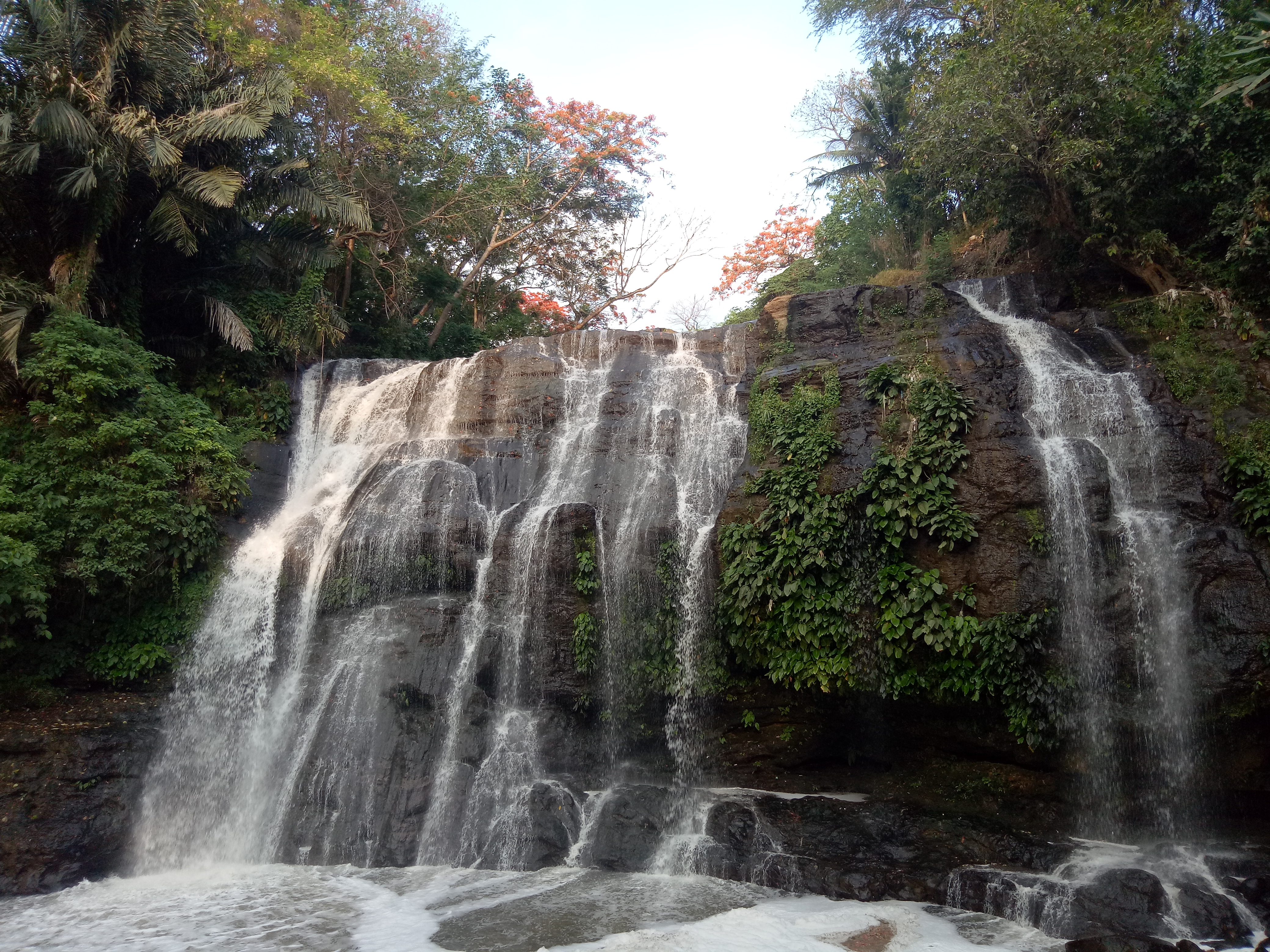 Hinulugang Taktak is a waterfall located in Rizal, Philippines. The area, initially 0.8 hectares, was expanded to 3.2 hectares upon its designation as a national park. Uploaded as entry to Wiki Loves Earth (2018). Coordinates: 14°35′49″N 121°09′54″E